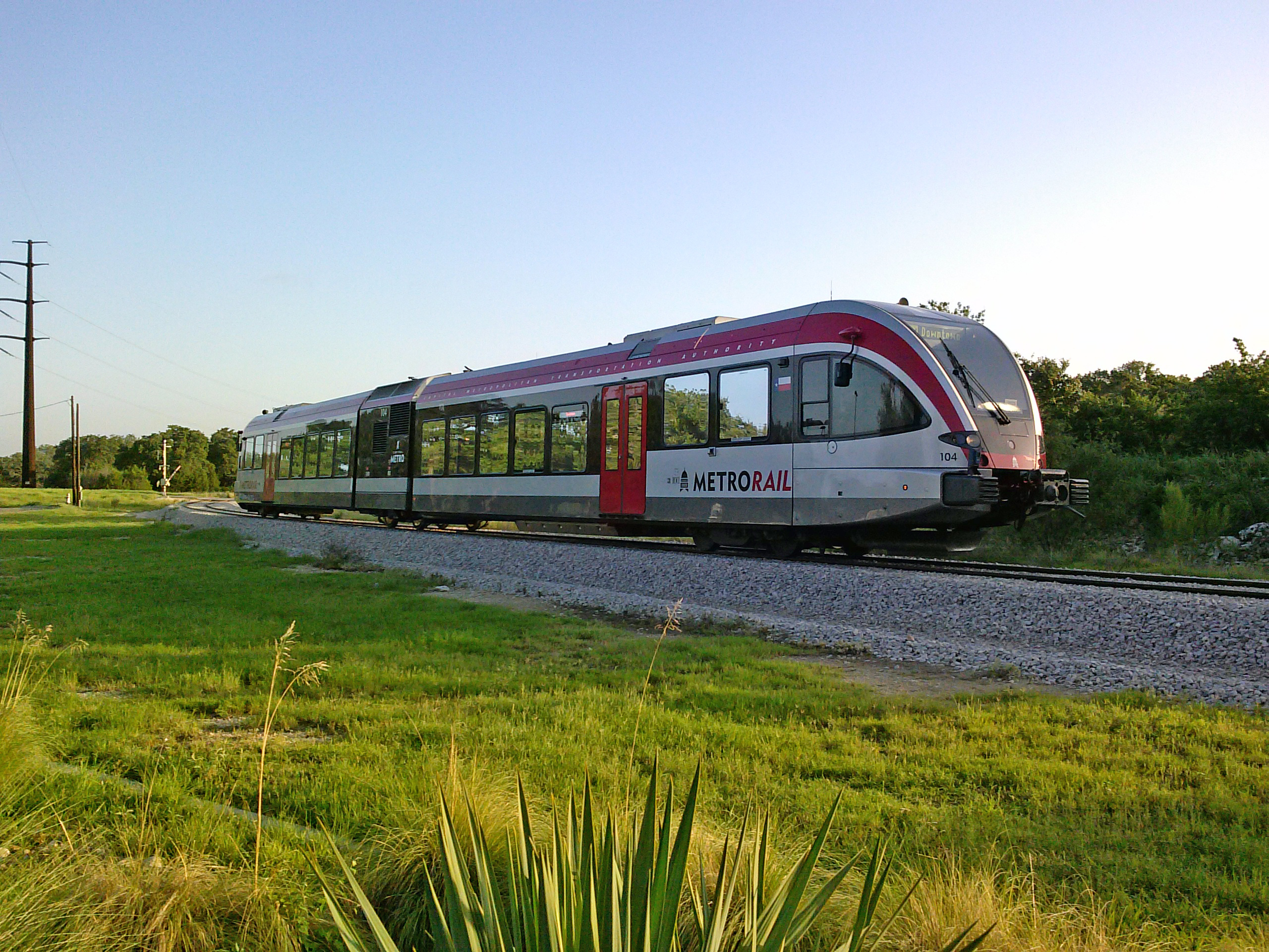 Capital MetroRail Red Line approaching Lakeline Station, Austin, Texas.